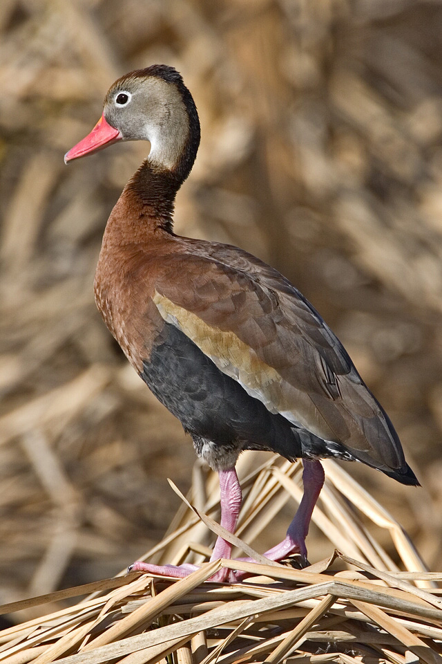 Black-Bellied Whistling Duck, Birding Center, Port Aransas, Texas